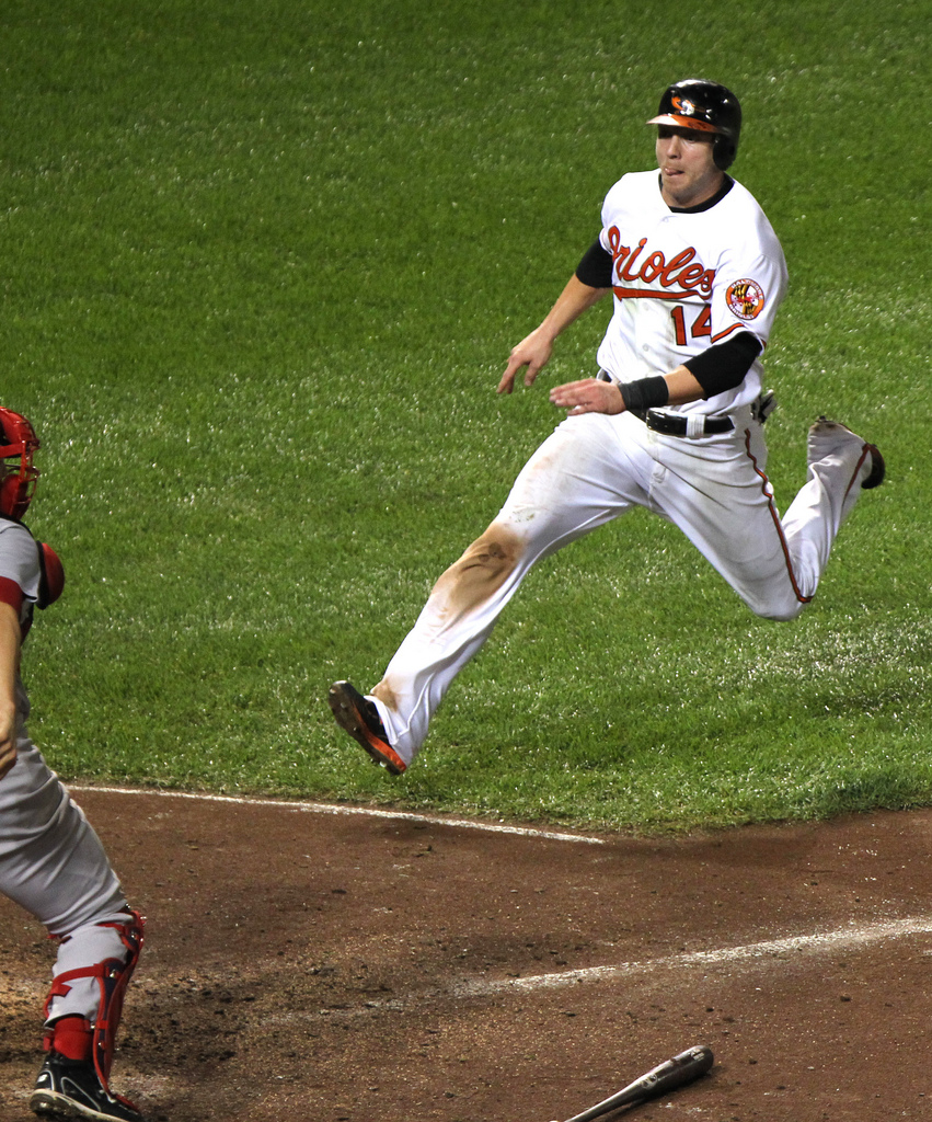 Baltimore Orioles Nolan Reimold about to score the winning run on a Robert Andino single with 2 outs in the bottom of the ninth inning as Boston Red Sox catcher Ryan Lavarnway waits for the ball at Oriole Park at Camden Yards in Baltimore, Maryland on September 28, 2011. The 4-3 loss eliminated the Red Sox from playoff contention on the final day of the regular season.